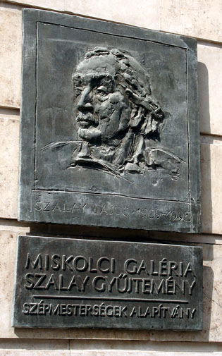 Lajos Szalay. Miskolc, Hungary